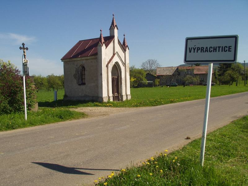 Gothic revival chapel na Trhovici in Halda, Výprachtice, Czech Republic. Built 1890.